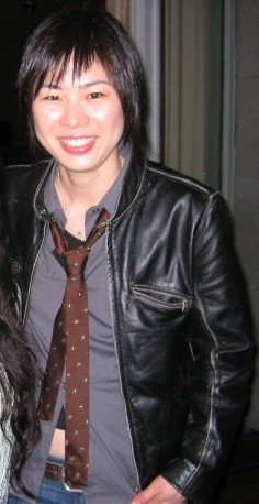 cw & i with the v. talented alice wu!